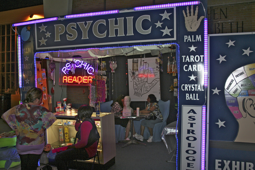 Psychic reader booth at the Canadian National Exhibition midway August 2008.